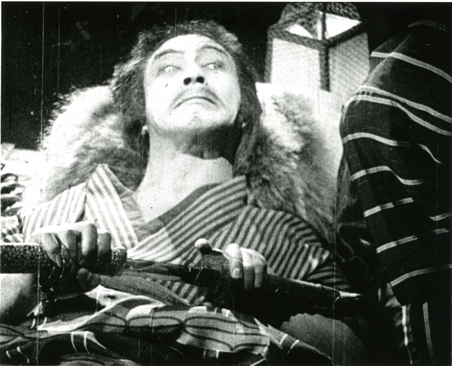 Denjirō Ōkōchi in A Diary of Chuji's Travels (1927) directed by Daisuke Itō